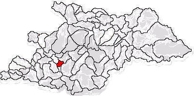 Map of Săcălăşeni commune in Maramures County